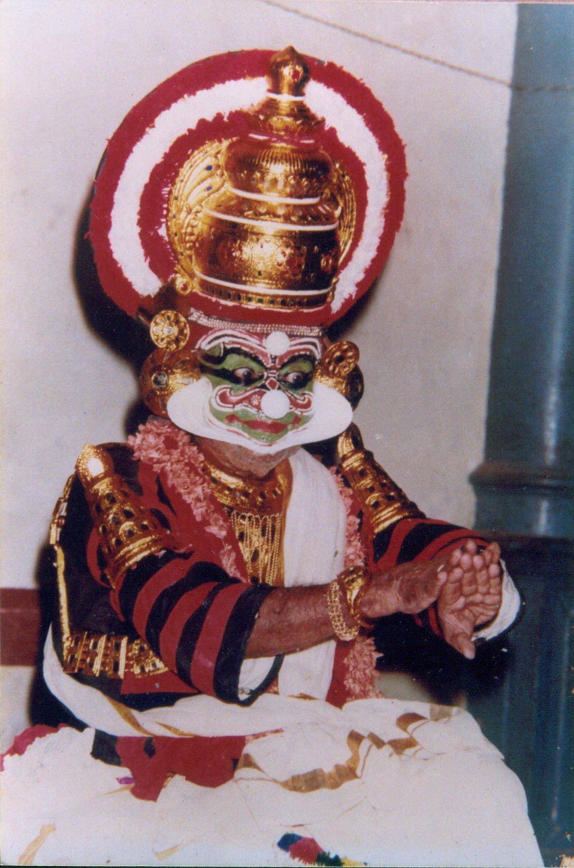 Guru Nātyāchārya Vidūshakaratnam Padma Shri Mâni Mâdhava Châkyâr in one of his most celebrated roles, as Ravana in Kutiyattam at the age of 88. It was one of his last public performances. Source:From authors private collection Date:Feb. 1987 Location:Kalikkotta palace, Thrippunithura, Kerala.